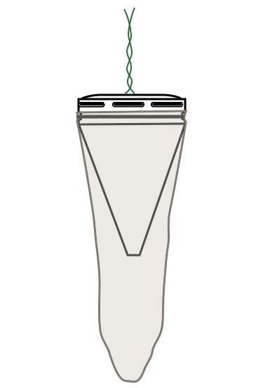 A kind of Insect trap usually used for Lepidoptera, baited with pherormons